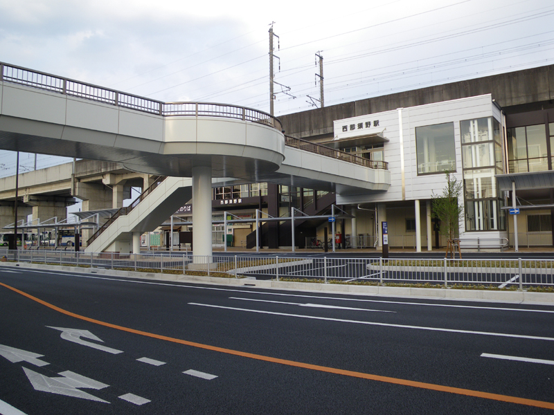 JR Nishinasuno Station. Nasushiobara, Tochigi, Japan.